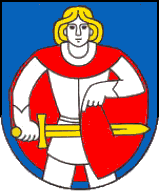 Coat of arms of Senica, Slovakia